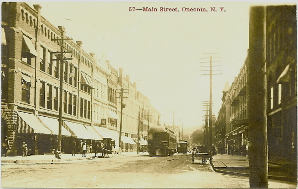 Postcard depicting Main Street, Oneonta circa 1909. Store Web page states: "Original, circa 1909 real photo postcard. Caption reads "Main Street, Oneonta, NY". Card is postally unused with an early AZO back"